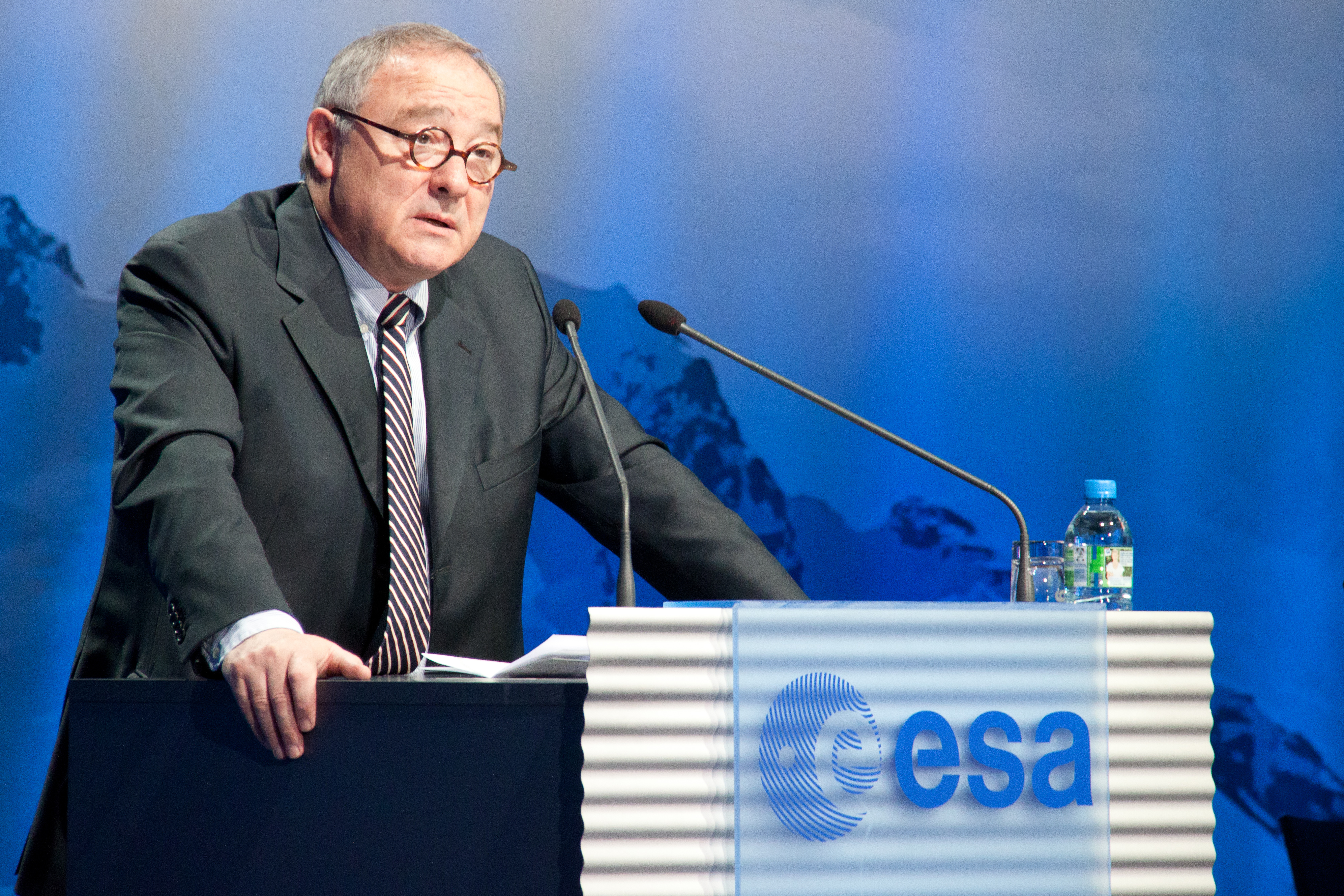 Jean-Jacques Dordain ESA Director General During Cryosat 2 Launch event